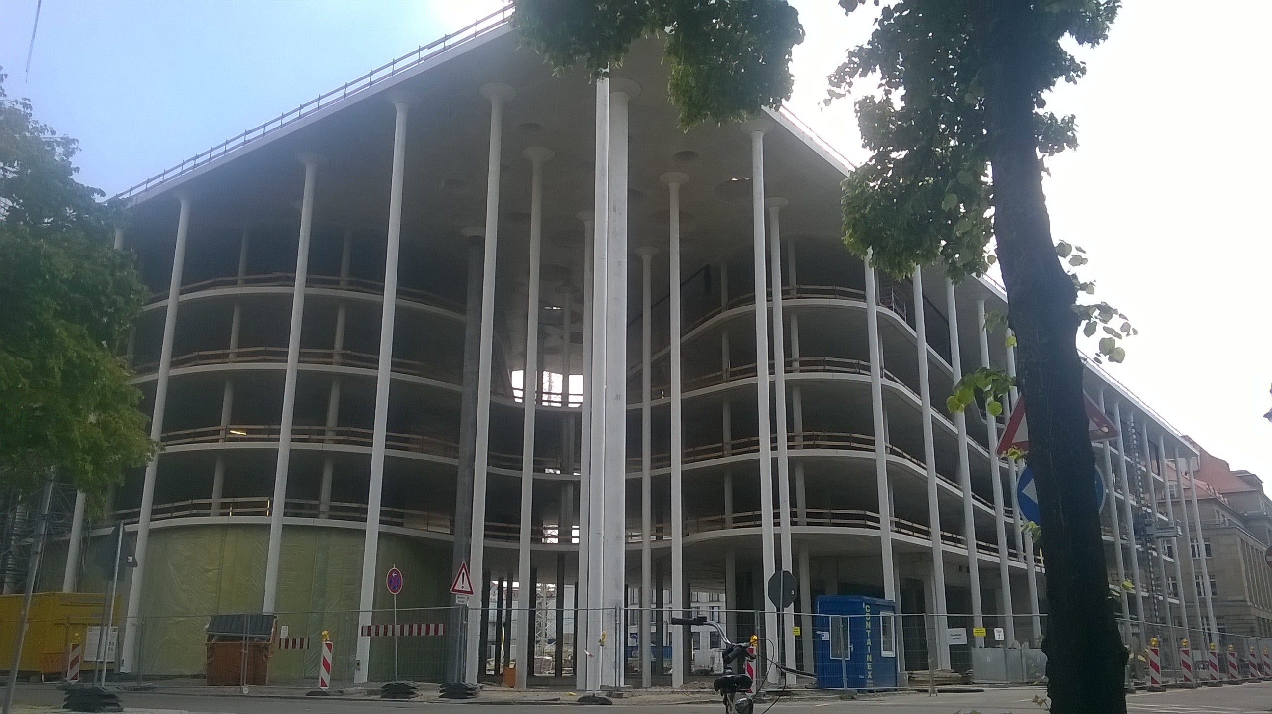 Headquarters of SAB, under construction in Leipzig, Germany